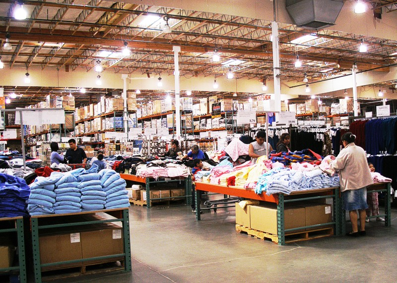 The interior of a typical Costco warehouse club store. This is the apparel section of the warehouse in Mountain View, California. Photographed on October 9, en:2005 by user Coolcaesar.